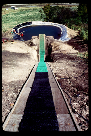 smaller picture of ramp.